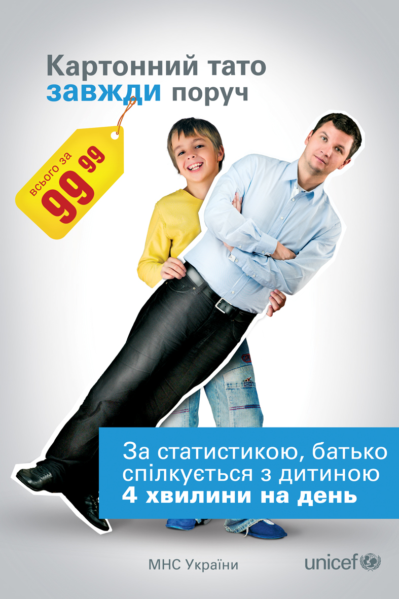 Responsible parenthood